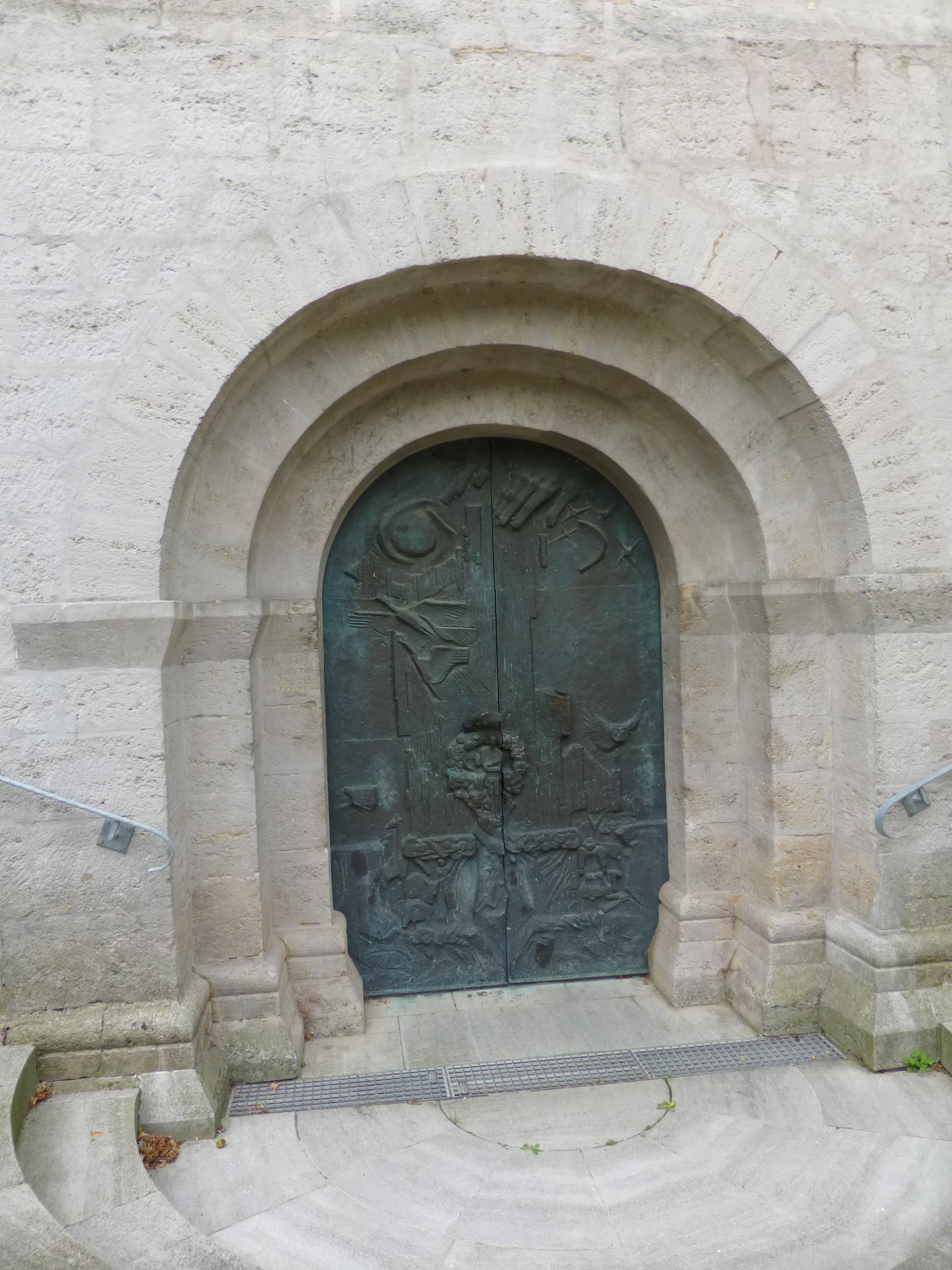 Bronze door by Otto Sonnleitner (1972) in the romanesque part of the Königshofen church, Baden.